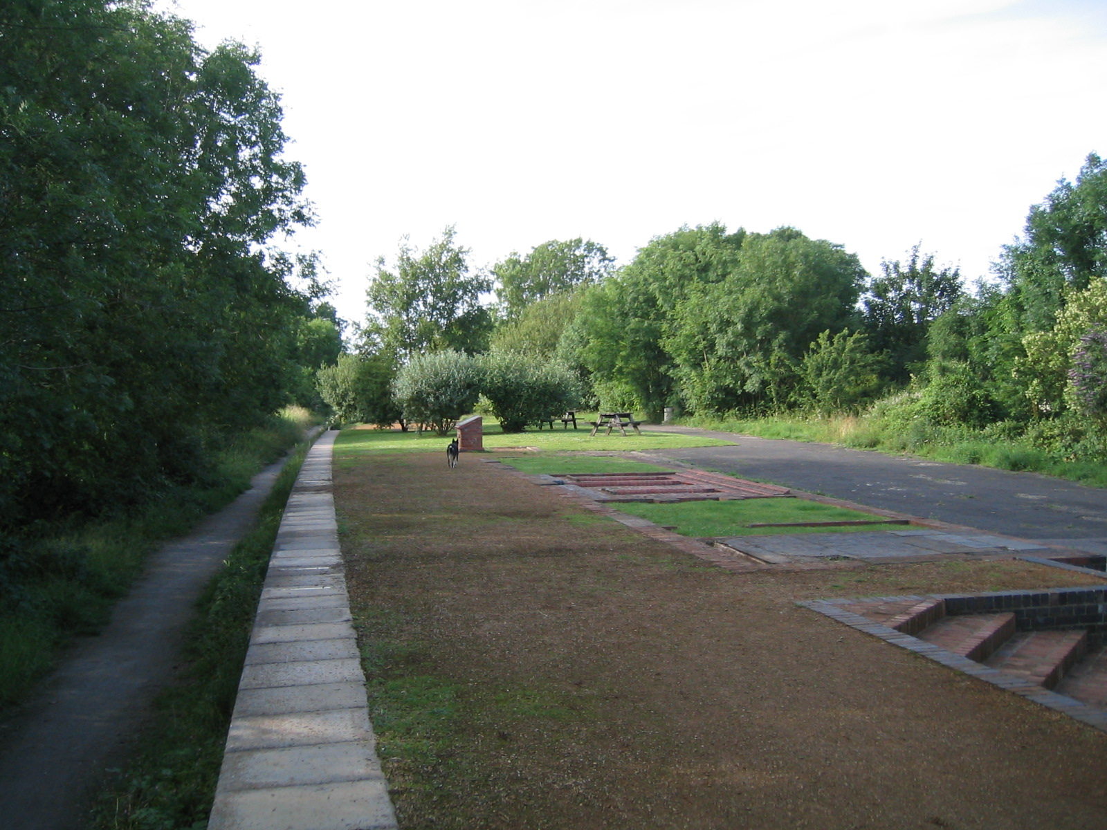 The Millennium Green, on the site of the old railway station, at Winscombe, North Somerset, England. Photo taken by me 2005-07-03.